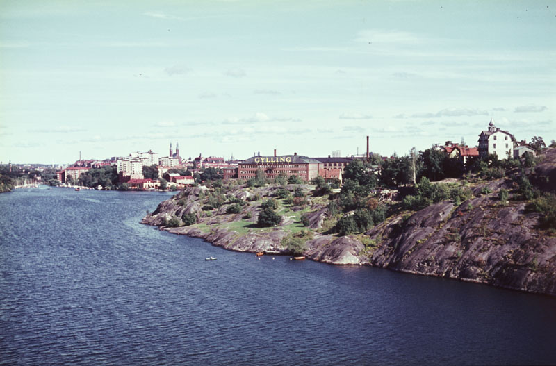 gylling factory 1966